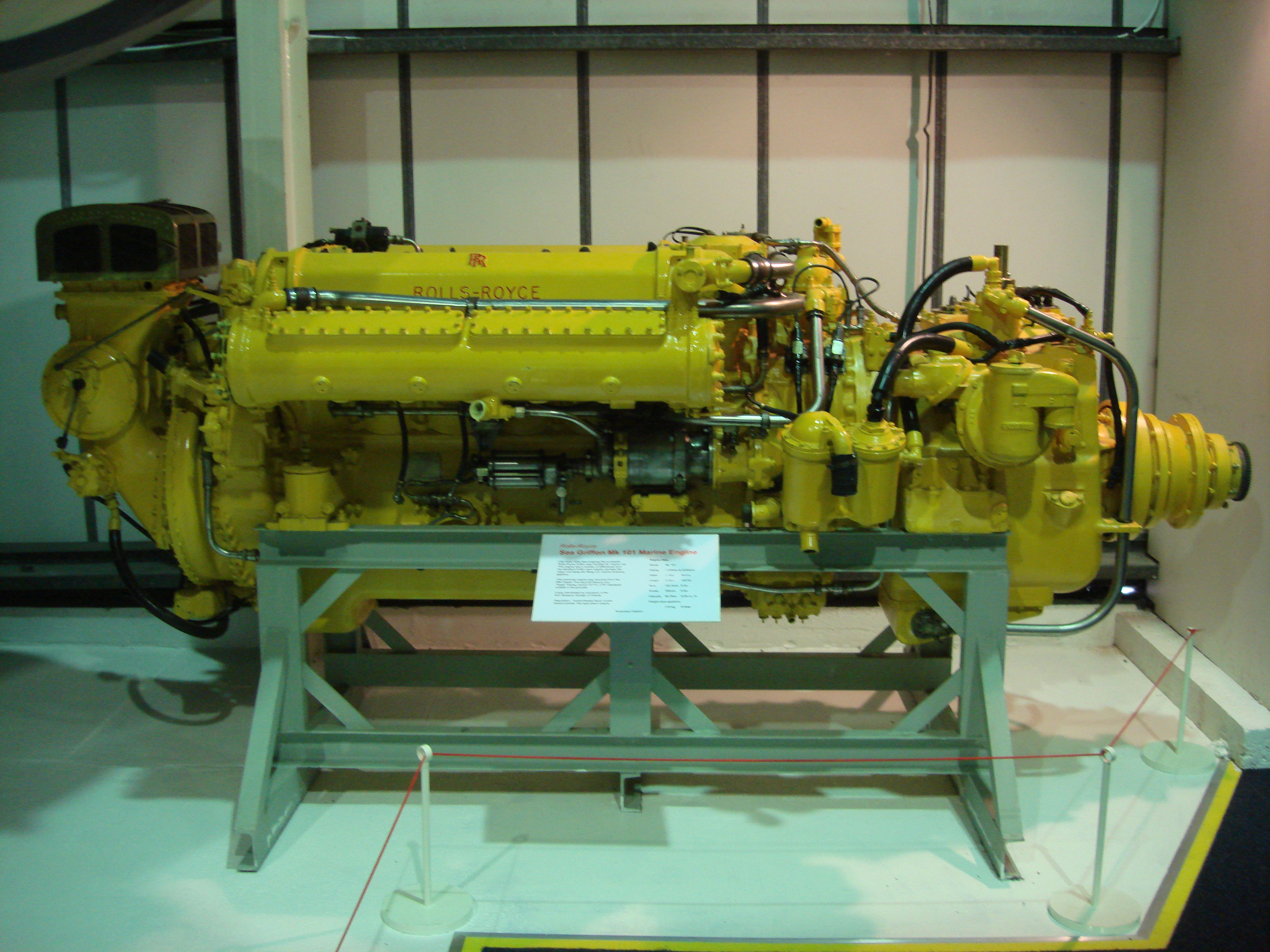 Rolls-Royce Sea Griffon Mk101 Marine Engine in the RAF Museum London. Removed from Vosper Thornycroft 68ft Rescue & Target Towing Launch shown in File:Vosper Thornycroft 68ft Rescue & Target Towing Launch 1.jpg